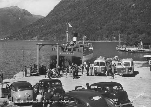 The car ferry MF Folgefonn in Kinsarvik jetty, Hardanger. 1940s.